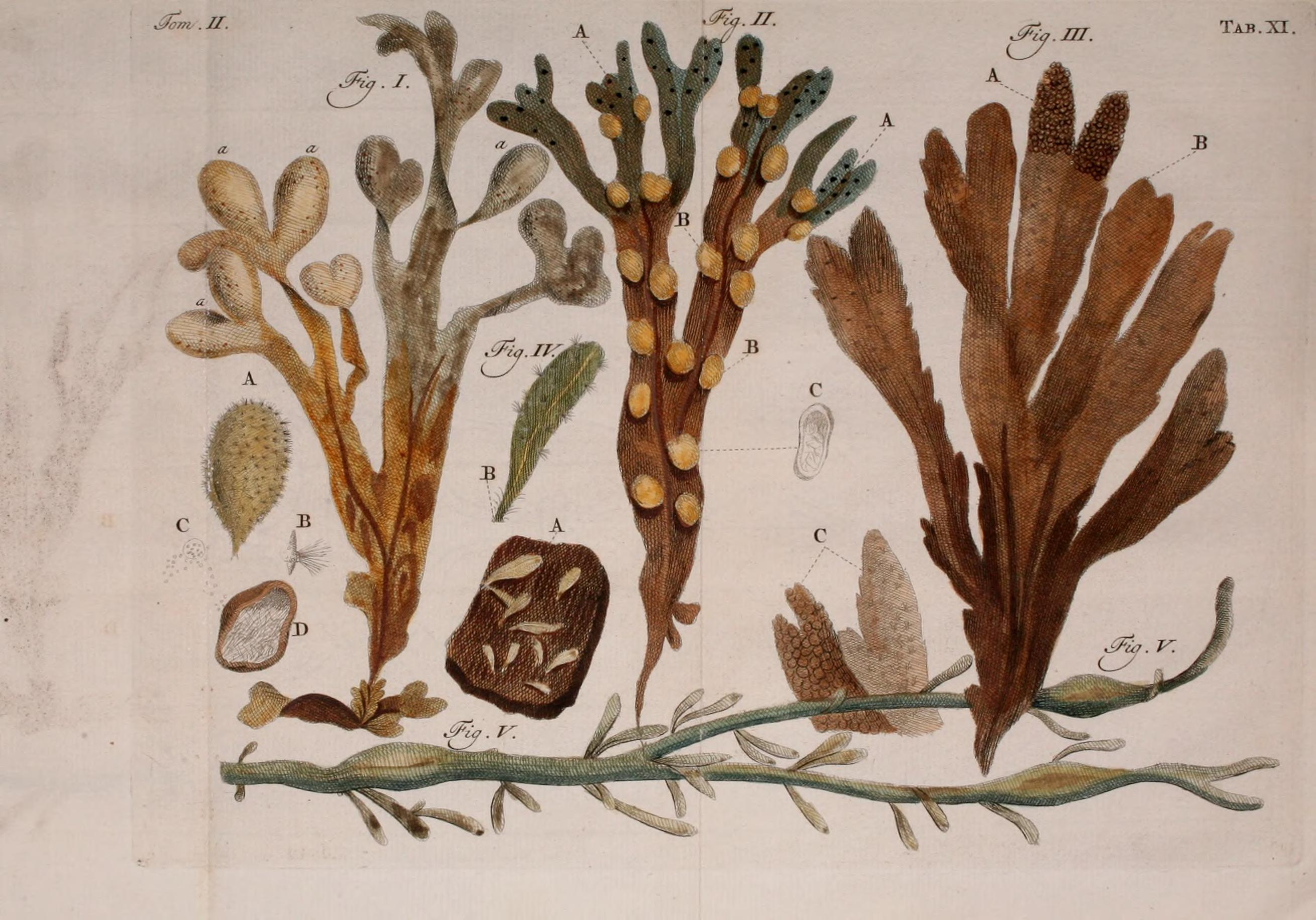 Title: Jobi Basteri med. doct., Acad. Caes. ... Opuscula subseciva : observationes miscellaneas de animalculis et plantis, quibusdam marinis, eorumque ovariis et seminibus continentia Year: 1760 (1760s) Authors: Baster, Job, 1711-1775 Rhodius, T., ill Subjects: Marine biology Marine animals Marine plants Embryology Publisher: Harlemi : Apud Joannem Bosch Text Appearing Before Image: ^o,III. TAB.ia Text Appearing After Image: ci^om . Zt. ^^.11.